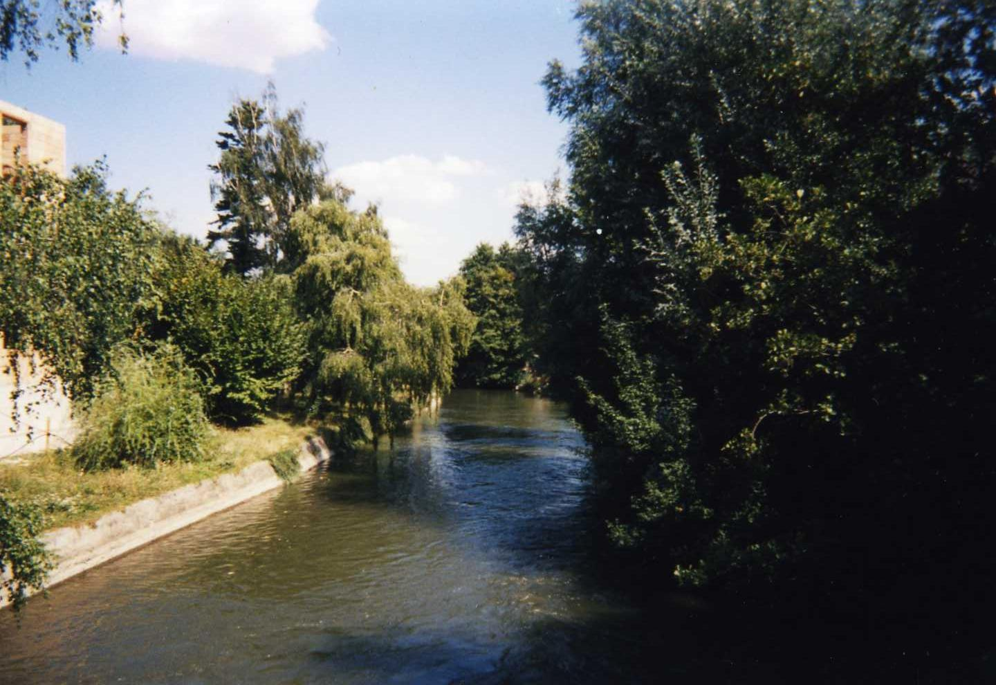 La Leitha / The Leitha / Die Leitha / Lajta / Litava